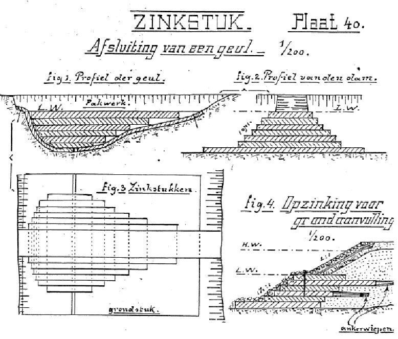 Drawing of a closure op a channel by sinking matresses on top of each other